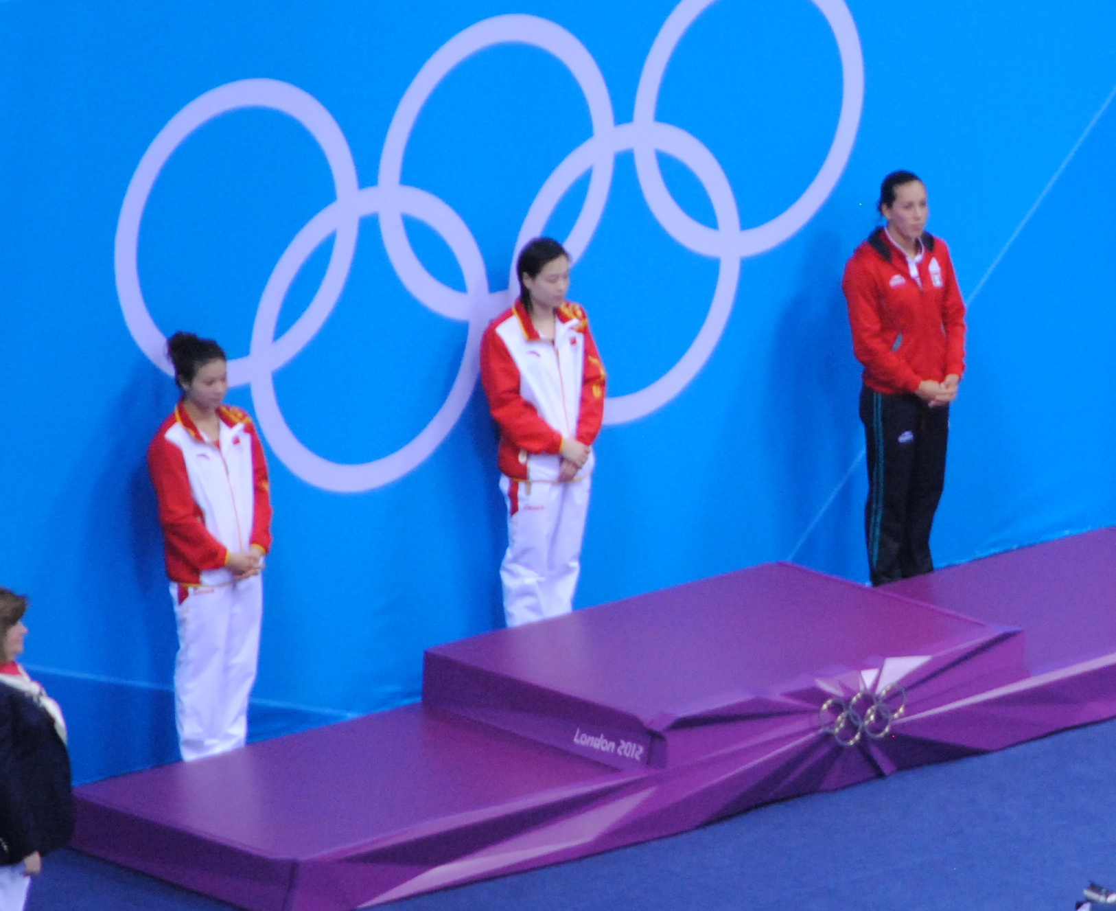 Aquatics Center, Olympic Park